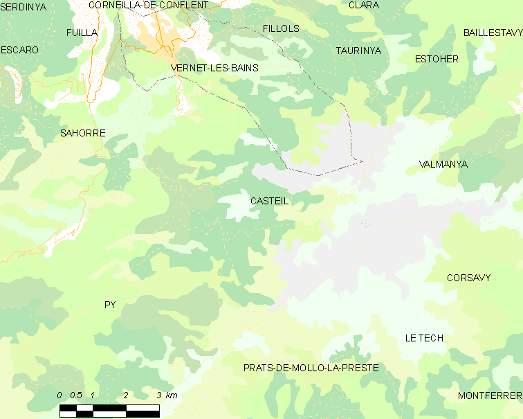 Map of French municipality